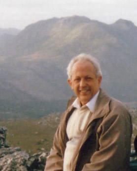 George Ellis, emeritus distinguished Professor of University of Cape Town (UCT), walking in Cape Town, 2002.